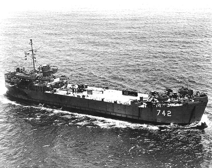 USS Dunn County (LST-742) underway during the 1950s. US Navy photo # NH-96878 from the collections of the US Naval Historical Center. Official US Navy photo taken from